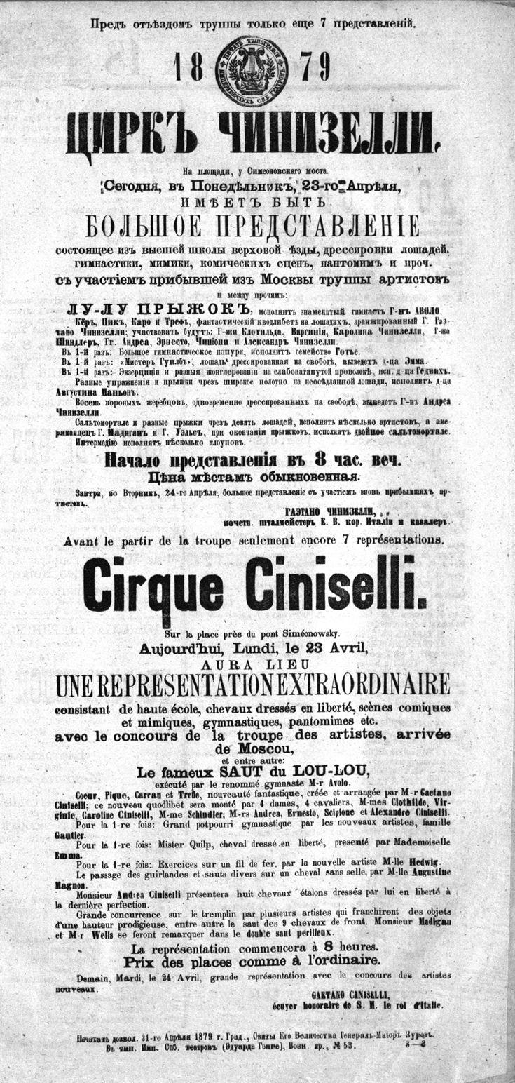 Poster for Ciniselli's circus, Saint-Petersburg 23. april 1879; advertising Elvira Madigan's (=Hedwig) first performance as a funambulist.